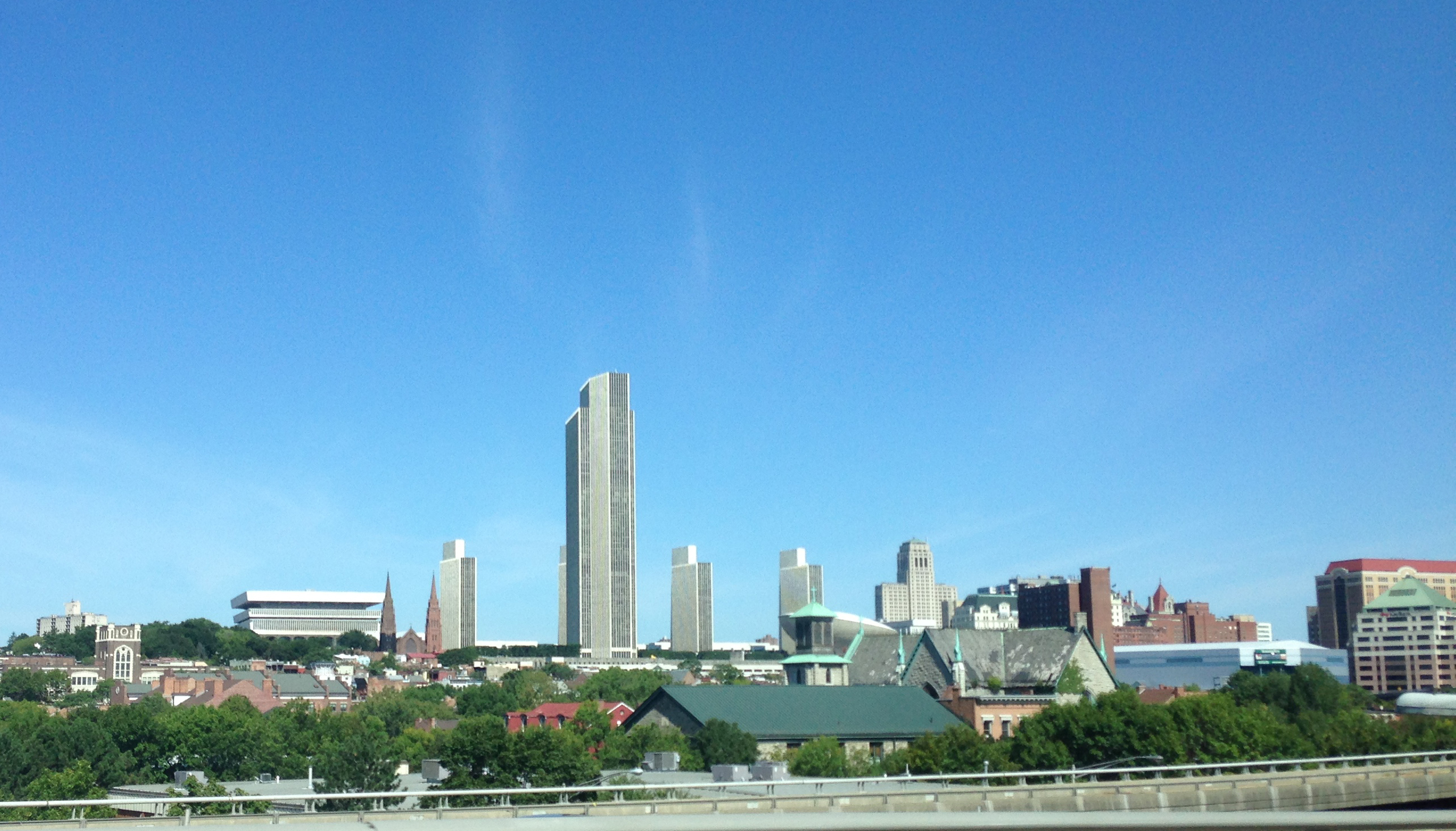 View of downtown Albany, New York from Interstate 787 northbound just north of Exit 3 on August 25th 2013